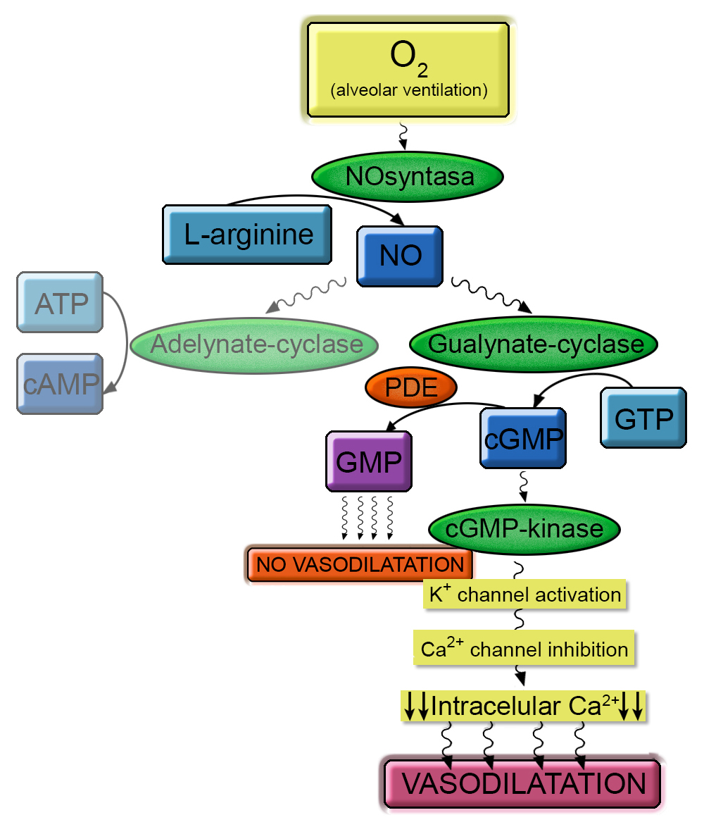 Molecular pathway of vasodilation mediated by cGMP